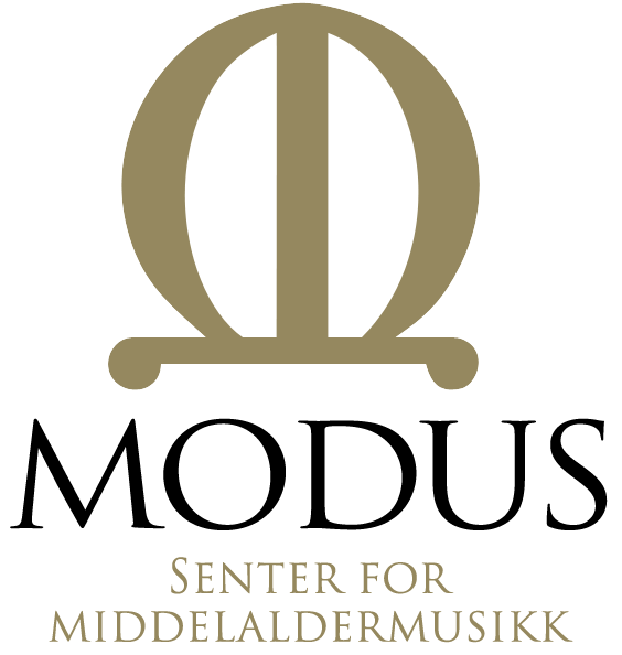 This is the company logo for Modus Centre for medieval music in Norway